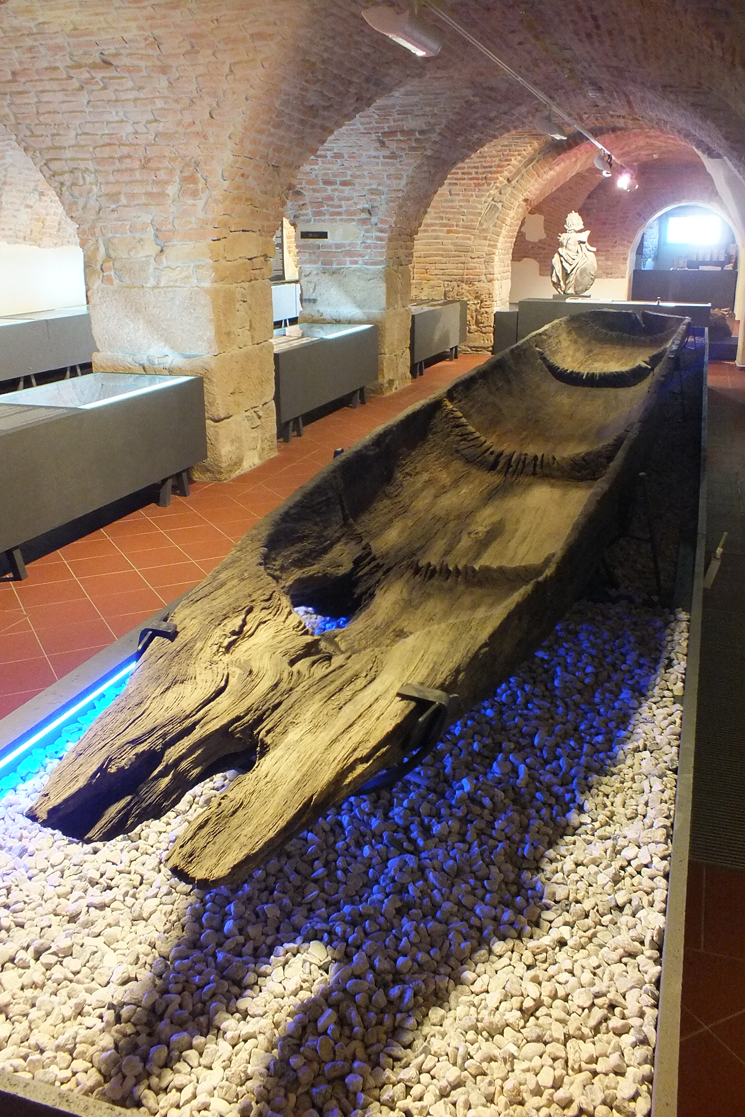 Celtic monoxylon found on the shore of a lake near Mohelnice (Olomouc Region, the Czech Republic) in 1999. It comes from the late Iron Age (400–50 AD) and it was made from a 200 years old oak. Measuring 10.5 x 1.05 × 0.6 m, it is the biggest monoxyl found in the Czech Republic. The photo was taken at the exhibition Příběh kamene (The Story of the Stone) in the basement of the former Jesuit university in Olomouc, nowadays belonging to the Regional Museum in Olomouc.